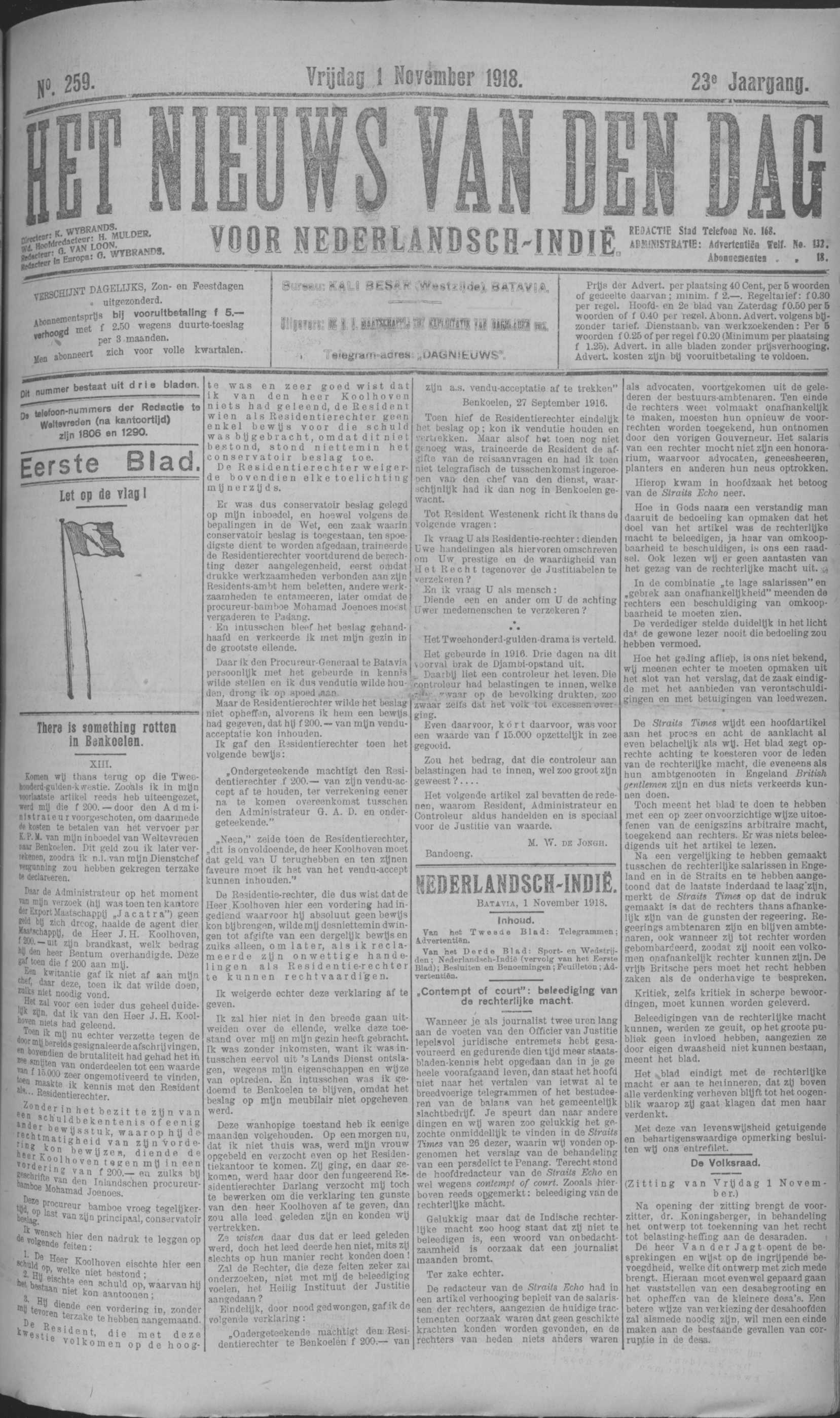 This is the front page of Het nieuws van den dag voor Nederlandsch-Indië (News of the Day for Netherland Indies), a Dutch language newspaper from Batavia, Dutch East Indies, from November 1 1918.